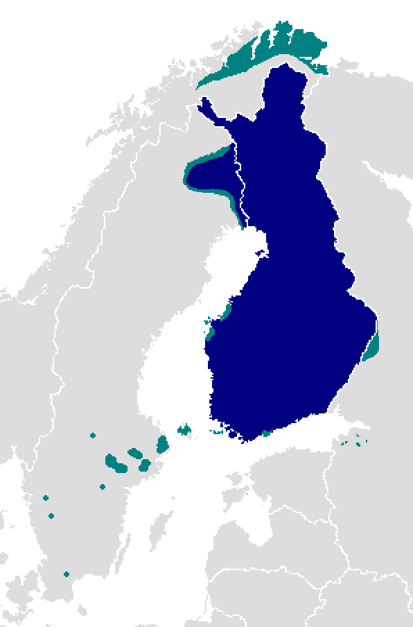 Map of the areas where the Finnish language is spoken.